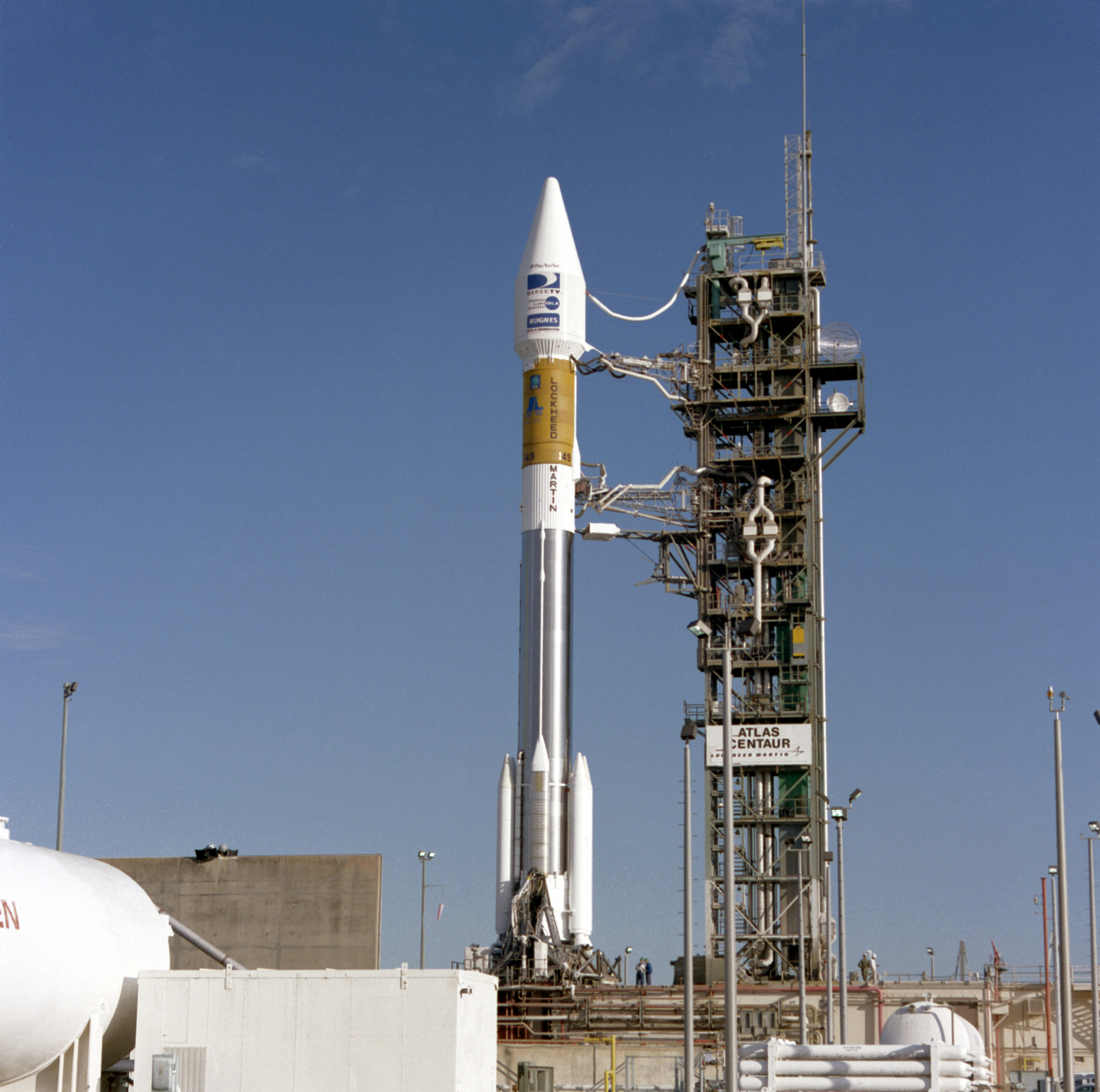 A Galaxy VIII-I commercial communications satellite awaits its trip into orbit atop a Lockheed Martin Atlas II AS launch vehicle. The liftoff is scheduled for 6:37 P.M. EST on 8 Dec. from launch complex 36B at Cape Canaveral.